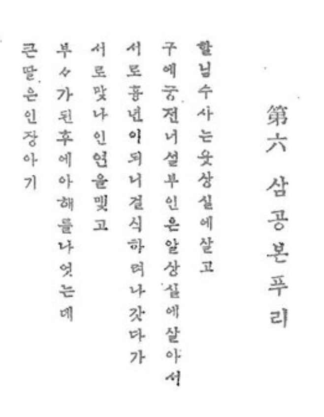 See File:朝鮮巫俗の研究 上券.pdf